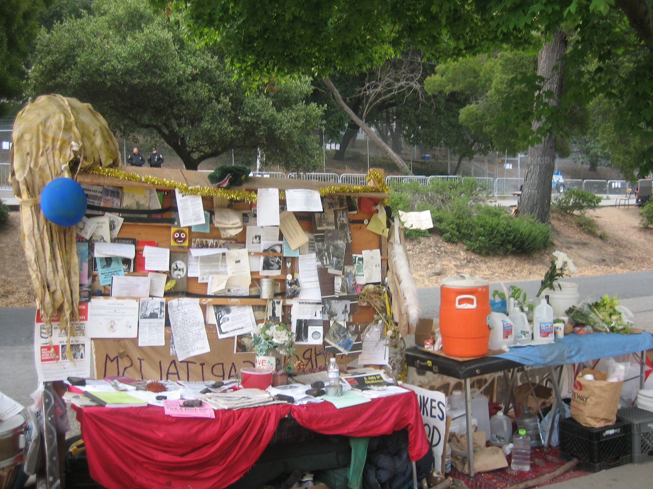 Berkeley oak grove protester supplies and propaganda